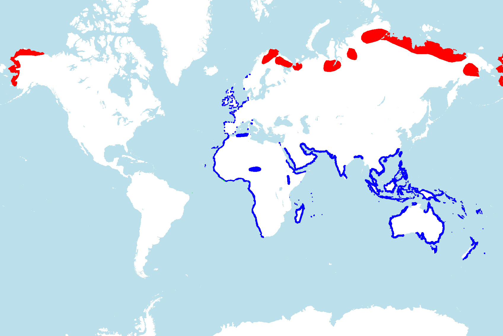 Limosa lapponica distribution map. Red, breeding territories Blue, wintering